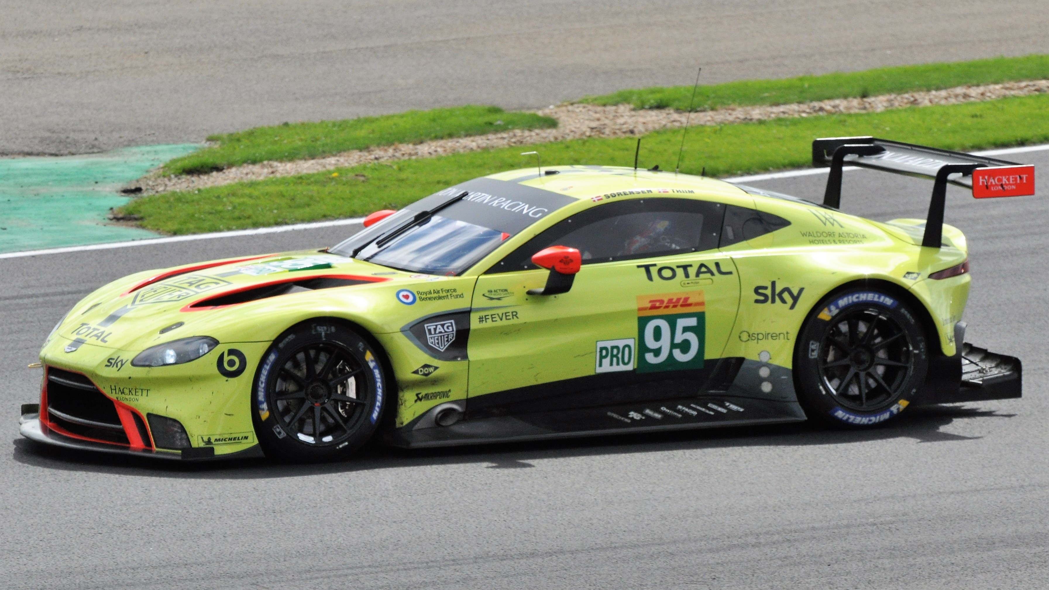 Danish driver Nicki Thiiim in the number 95 Aston Martin entry, enters Village corner 2018 6 Hours of Silverstone race. Thiim and his co-driver, compatriot Marco Sørensen, suffered mechanical troubles and finished only 17th in the LMGTE Pro class.